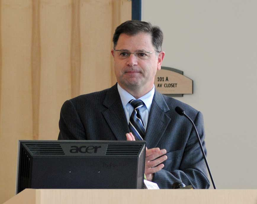 John Fernandez at NY Renewable Energy Cluster Event in October 2011